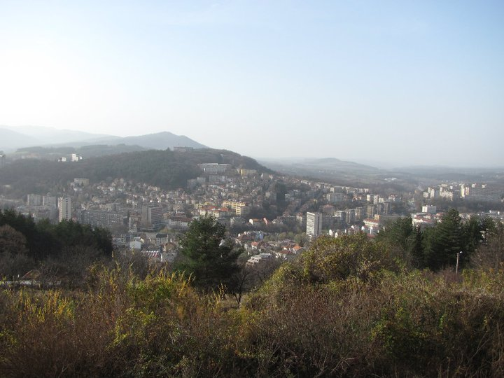 Panorama at Gabrovo, Bulgaria